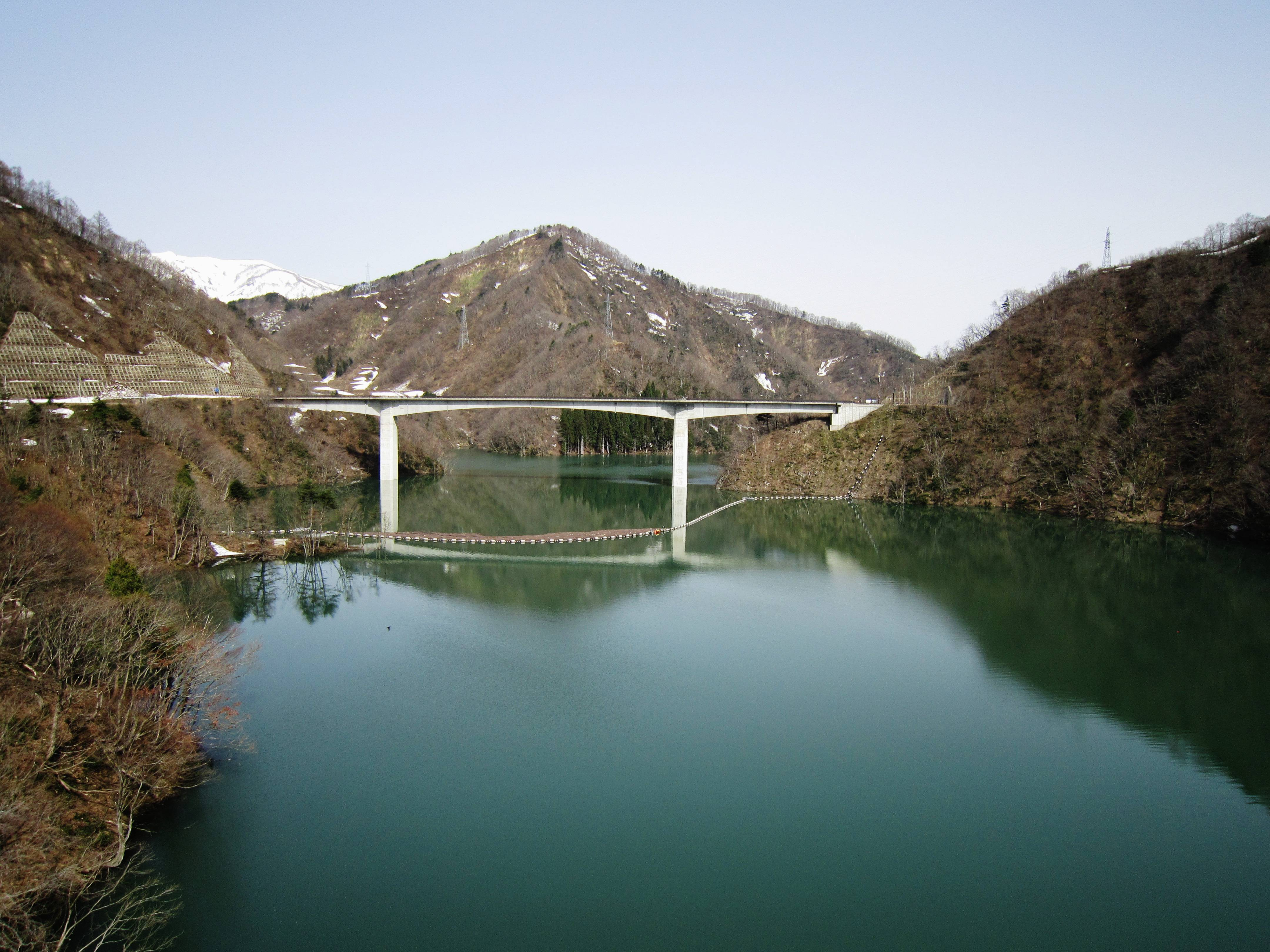 Nagai Dam lake.